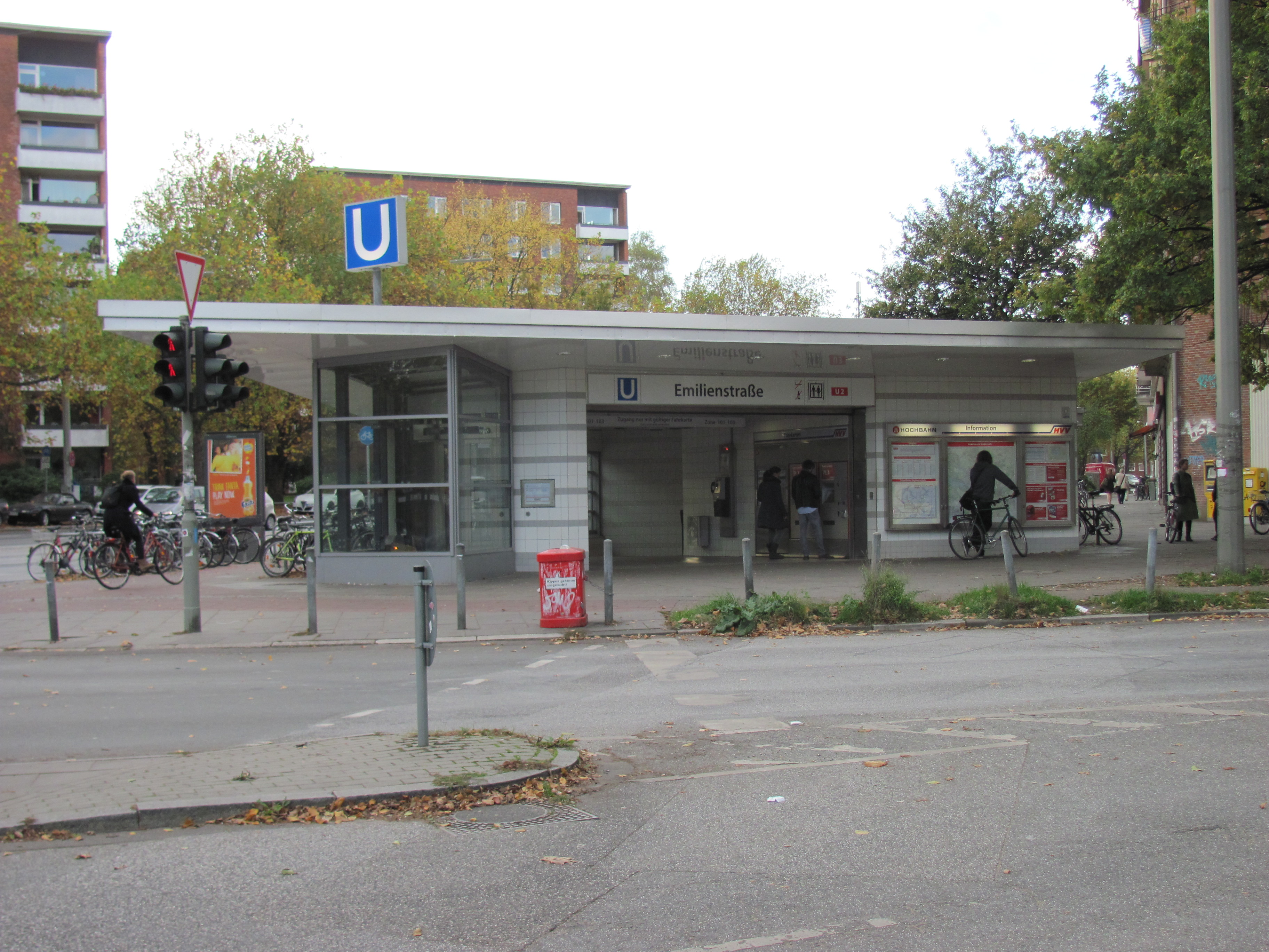 Entrance to Emilienstraße underground station, Hamburg, Germany